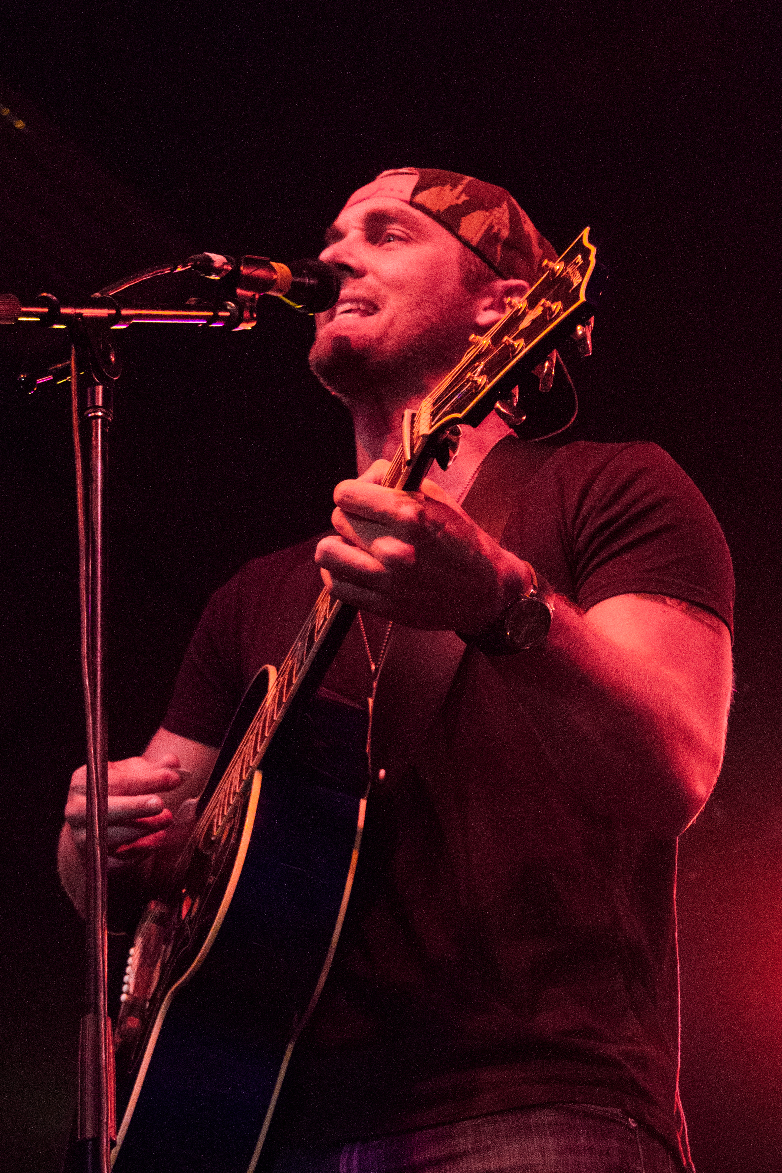 Brett Young in concert 2015